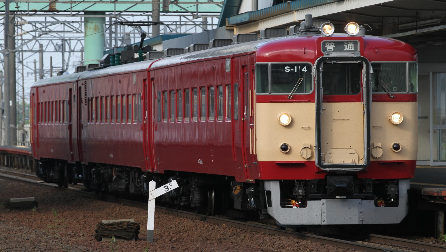 JR Hokkaido 711 series 3-car EMU set S-114 repainted into original JNR-style livery